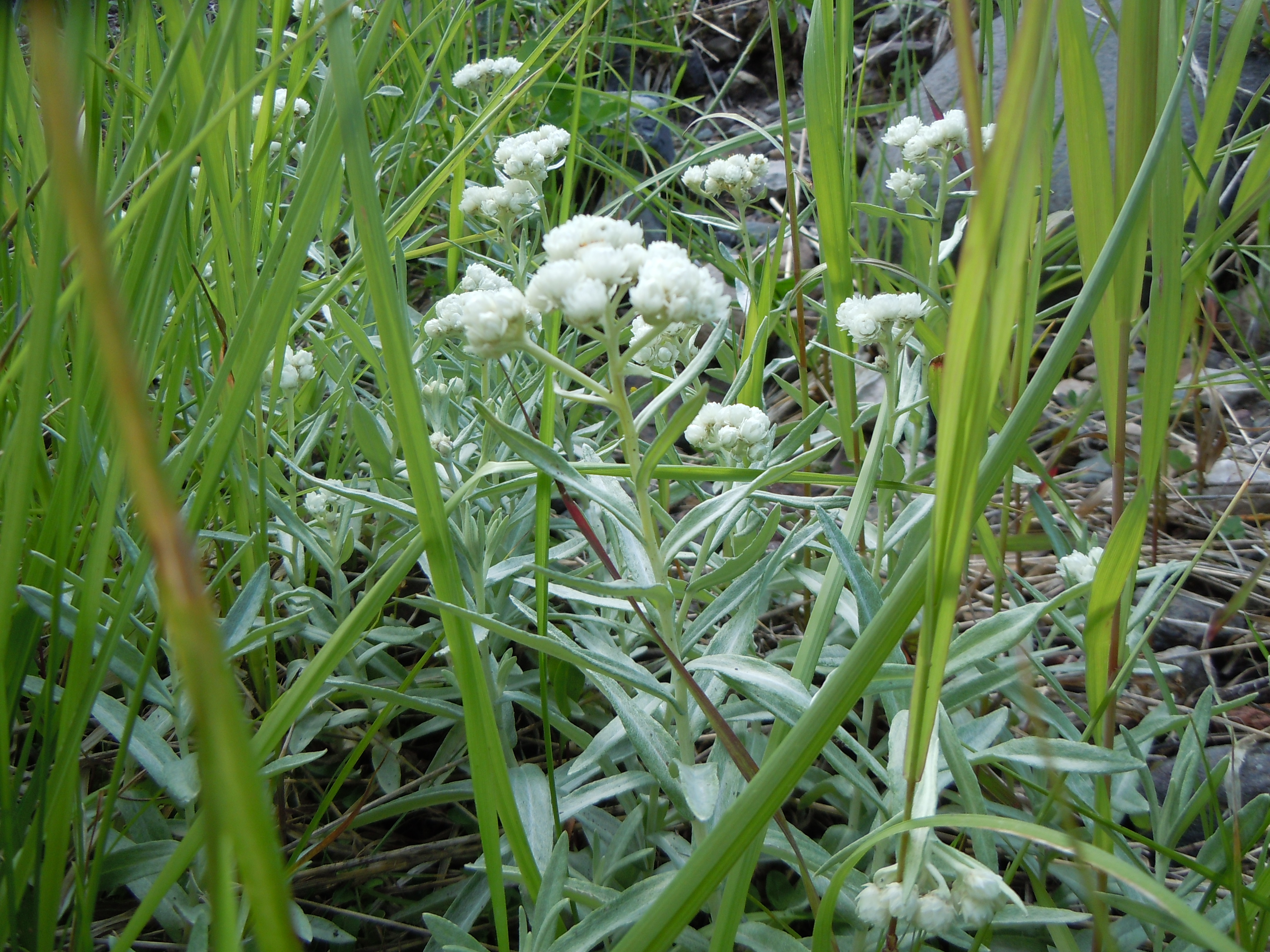 The rhizomatous habit where solitary stems arise separately (and not from a mat as is common for Antennaria species) as well as the pure white involucral bracts (especially those to the outside) are distinctive traits of this species.